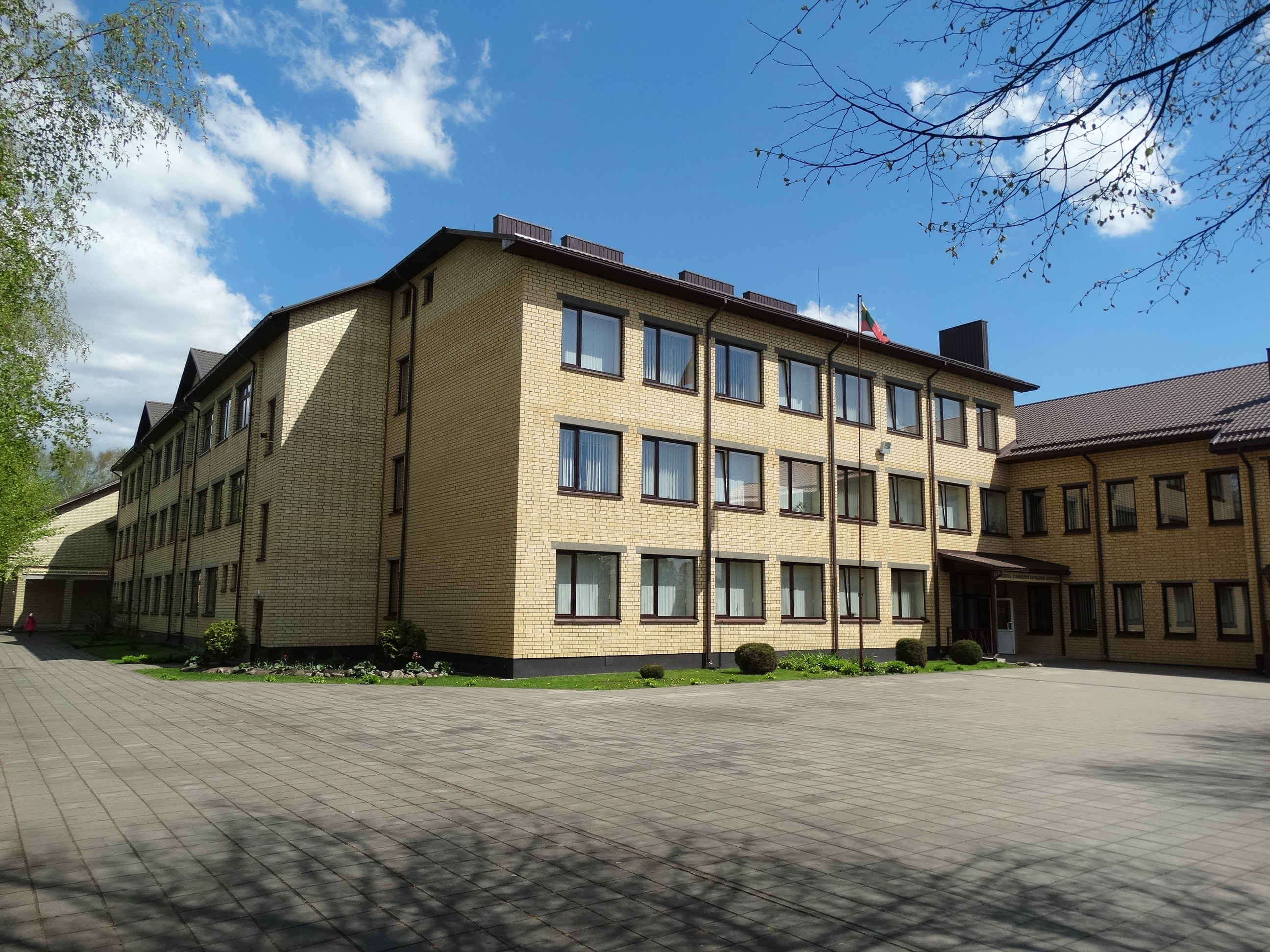 S. Rapolionis Gymnasium, Eišiškės, Šalčininkai District, Lithuania